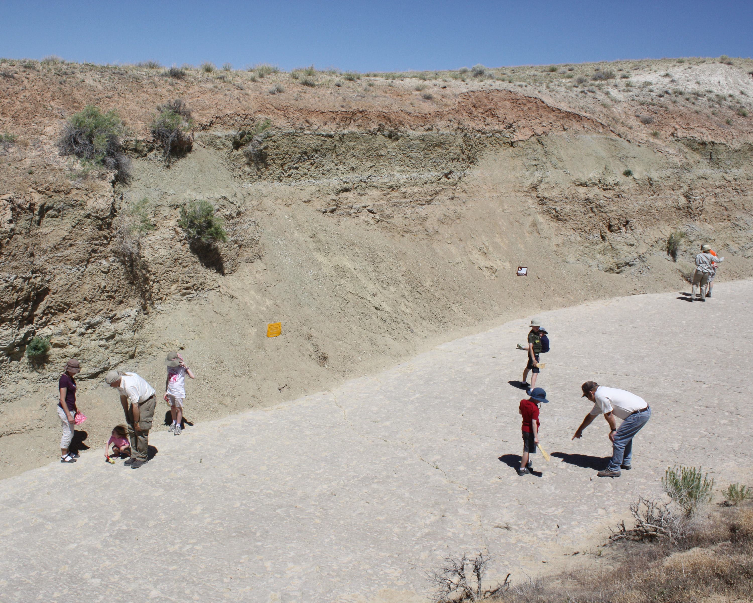 The Red Gulch Dinosaur Tracksite — an interpretive area in the Red Gulch/Alkali National Back Country Byway, in Big Horn County, Wyoming. Site of Jurassic dinosaur footprints, protected by the BLM−Bureau of Land Management in Wyoming. From the My Public Lands Magazine, Summer 2014: "Walking with Giants" We follow 167-million-year-old dinosaur tracks in the ancient ocean shores of…Wyoming? You can imagine yourself walking along an ocean shoreline 167 million years ago with dozens of other dinosaurs, looking to pick up a bite of lunch from what washed up on the last high tide. The ground is soft and your feet sink down in the thick ooze, leaving a clear footprint with every step you take. The discovery of rare fossil footprints on public lands near the Red Gulch/Alkali National Back Country Byway close to Shell, Wyoming, could alter current views about the Sundance Formation and the paleoenvironment of the Middle Jurassic Period. Story by Sarah Beckwith, BLM Wyoming Read the story